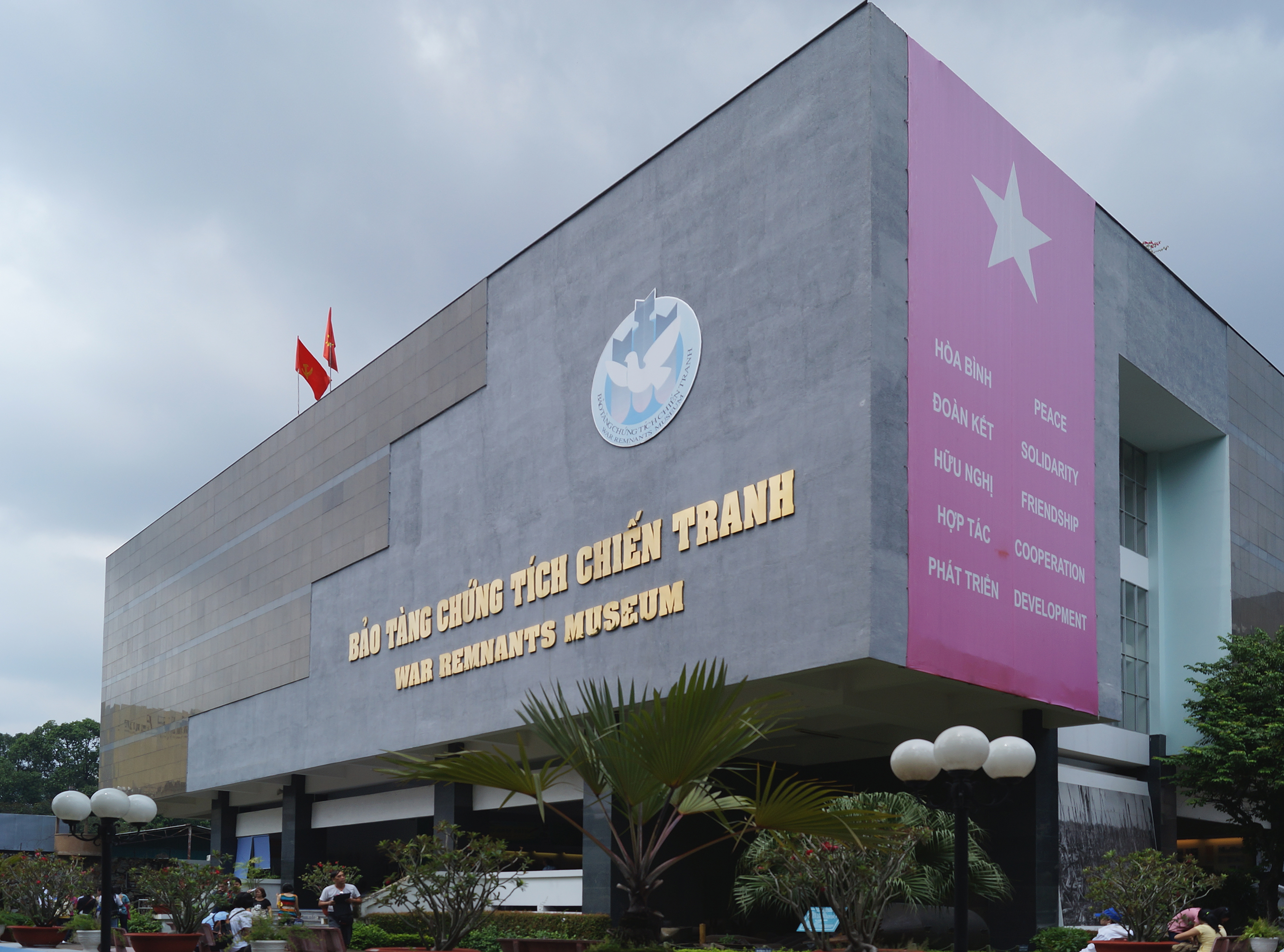 Front view of War Remnants Museum in Ho Chi Minh City